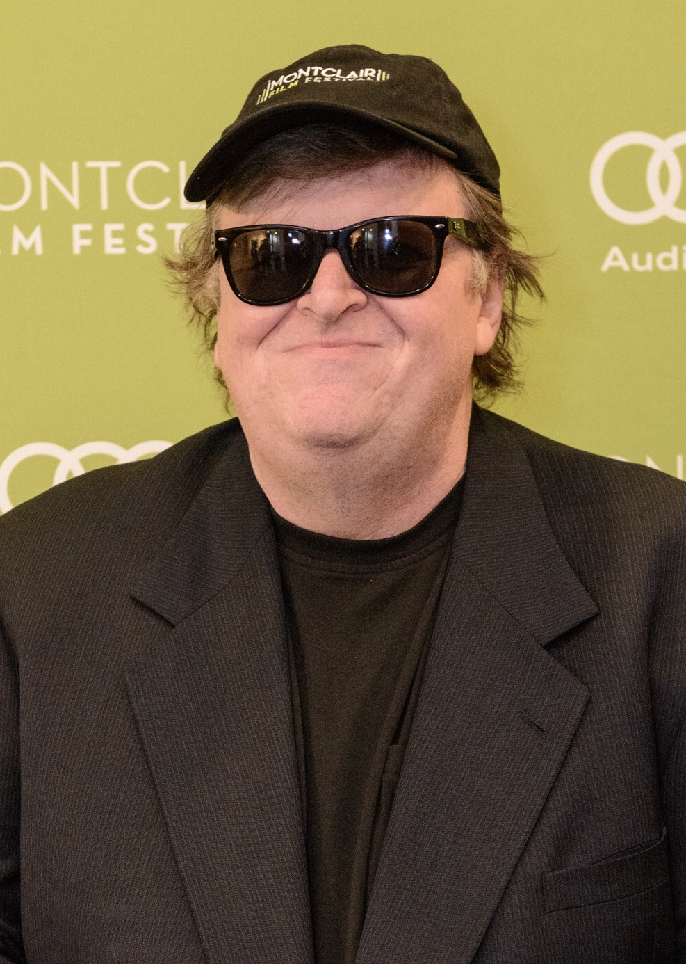 Documentary filmmaker Michael Moore at the 2013 Montclair Film Festival